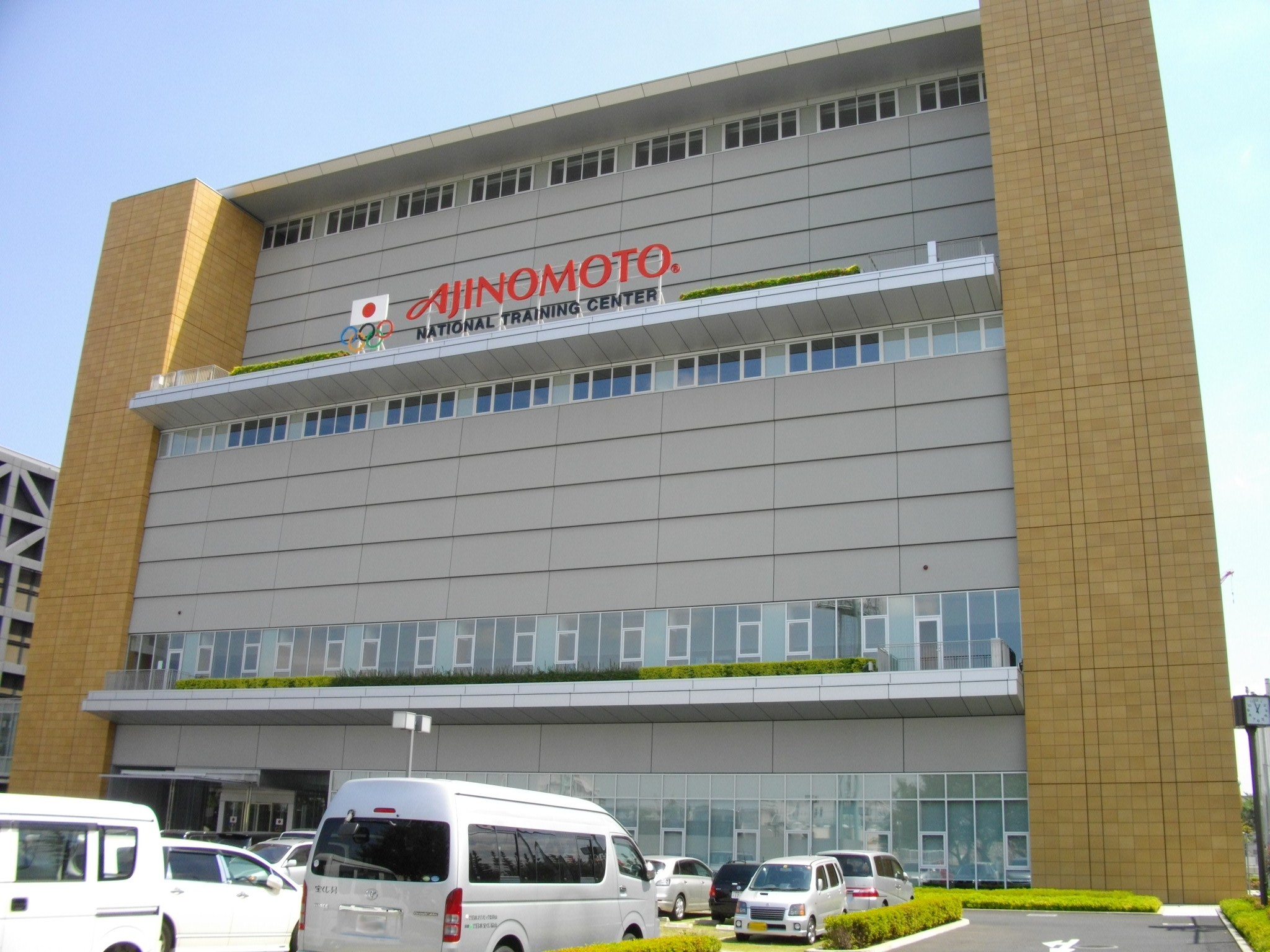 Ajinomoto National Training Center